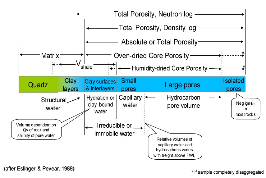 Author: c/o Meranti (Tony Kennaird) Source URL